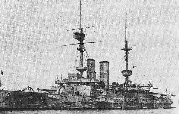 HMS Irresistible (1898) in 1908